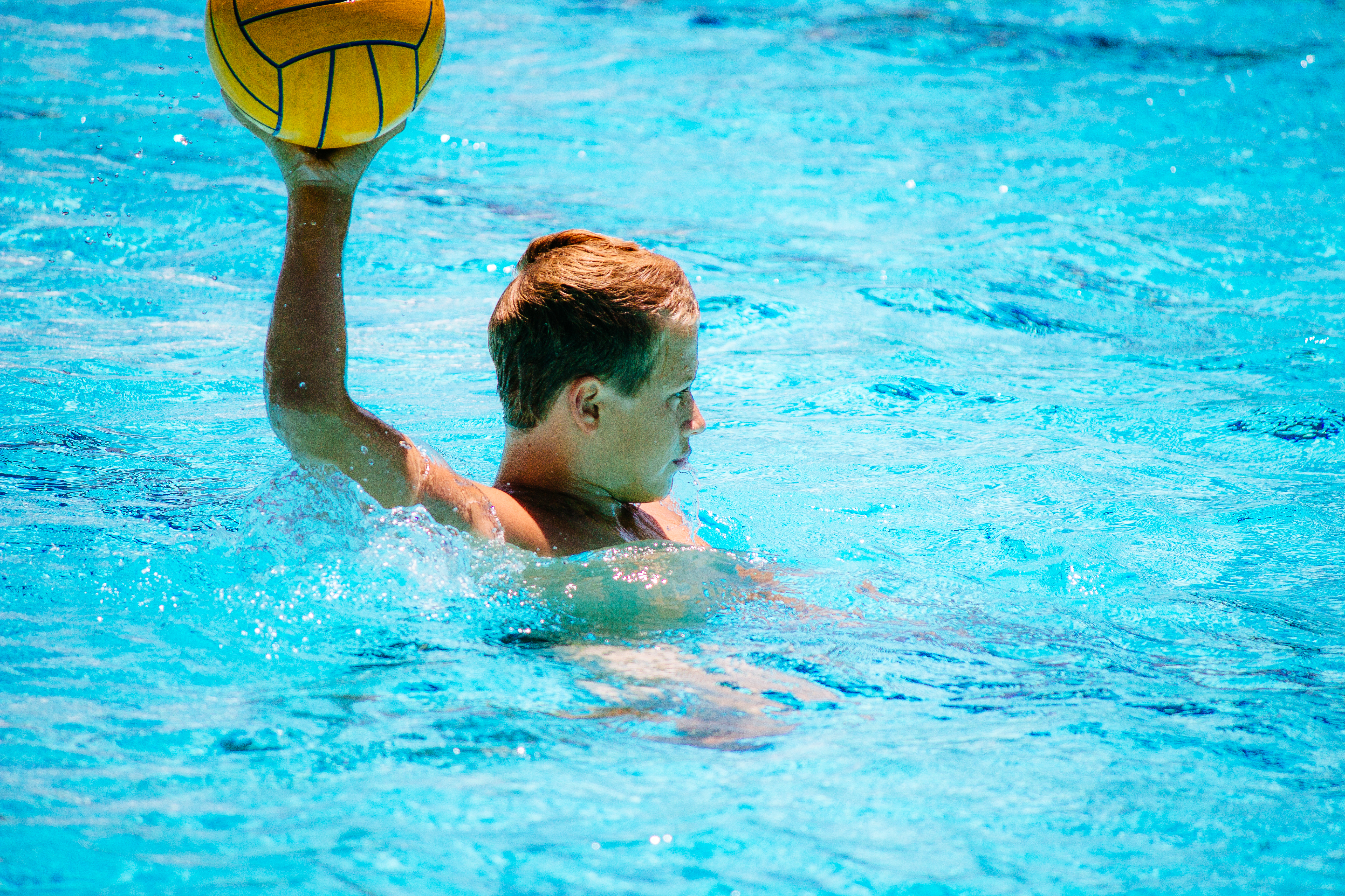 Photo taken at the 2014 Lake Macquarie International Children’s Games in December 2014. The ICG is the largest multi‐sport youth games in the world and a member of the International Olympic Committee. Approximately 1500 athletes between 12 and 15 years of age, and their coaches, participate in this prestigious event each year.